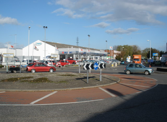 Roundabout, on Marsh Barton Trading Estate At the busy intersection of Alphin Brook Road and Hennock Road.